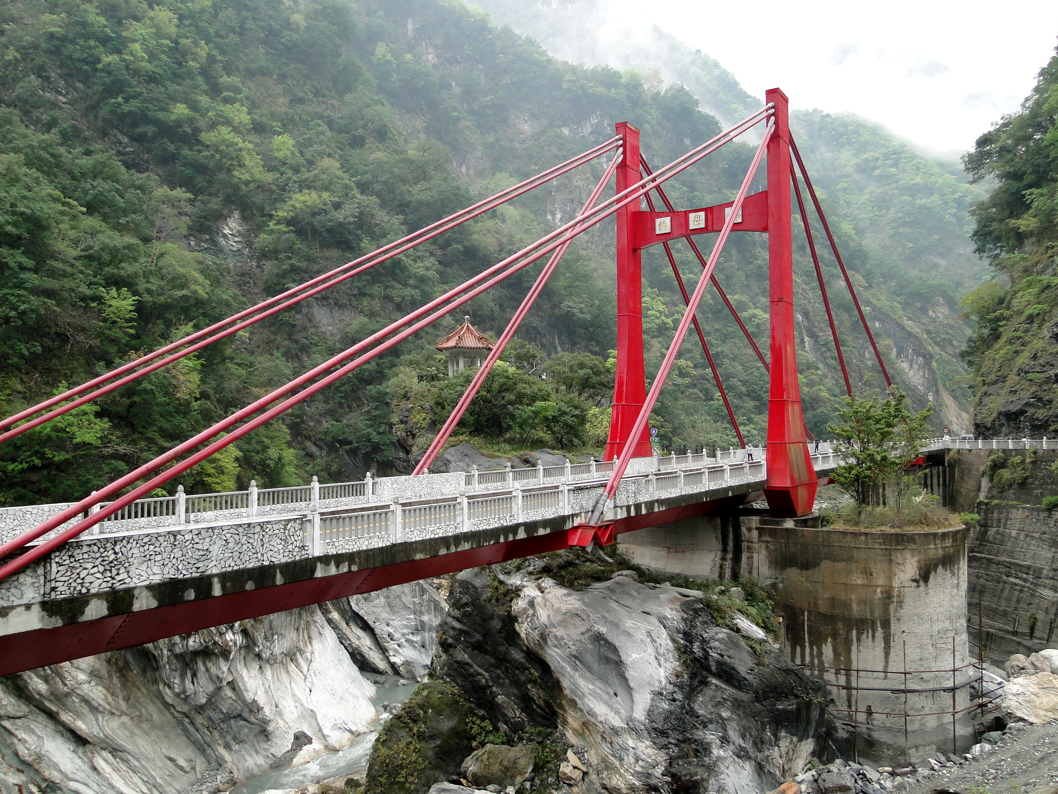 Cimu Bridge in Taroko National Park, Taiwan